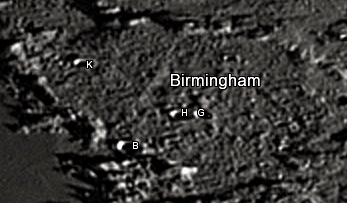 Birmingham lunar crater as seen from Earth with satellite craters labeled